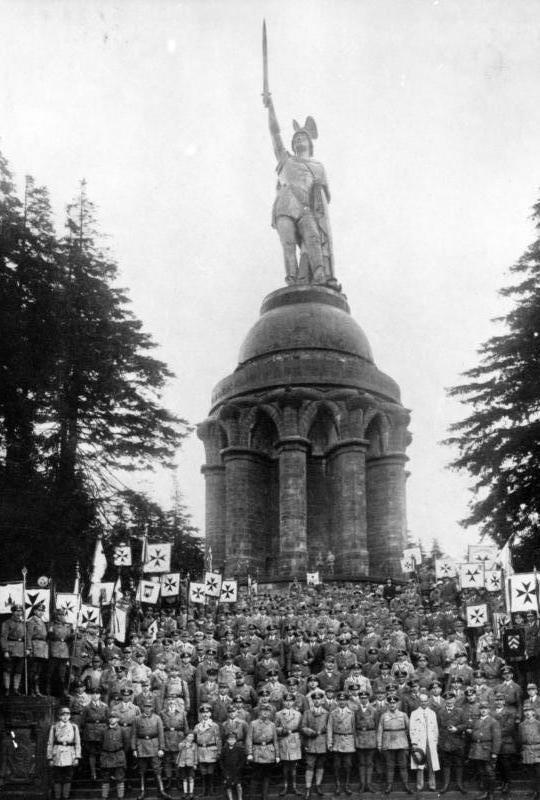 The Hermannsdenkmal in the southern part of the Teutoburger Forest in 1925. The monument was erected to commemorate the Cherusci war chief Arminius and the Battle of the Teutoburger Forest in 9AD.